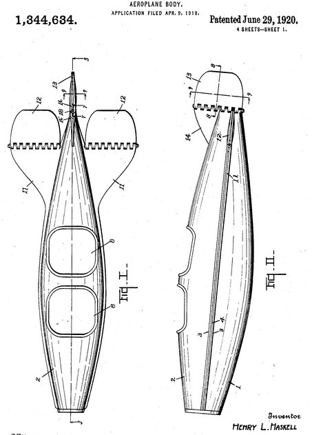 Haskell aeroplane body